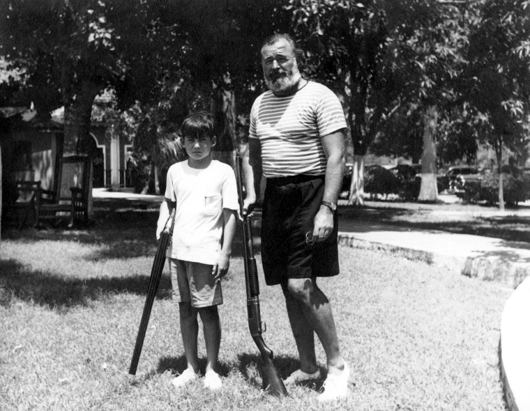 Ernest Hemingway and Gregory Hemingway at the Club de Cazadores in Cuba, not dated.